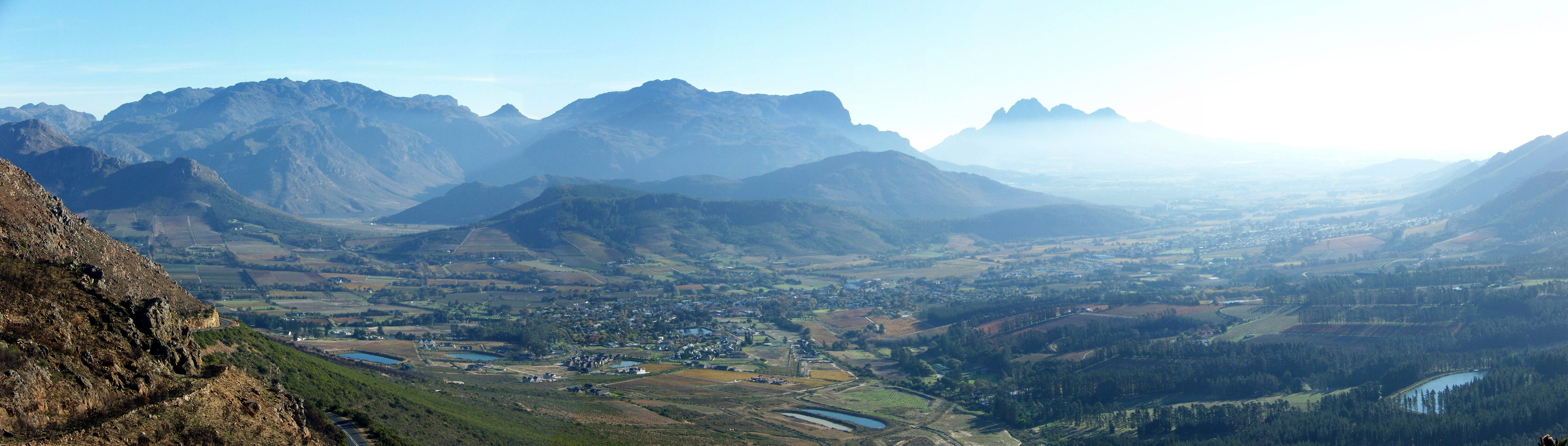 View of Franschhoek and the Berg River Valley as viewed from Franschhoek Pass